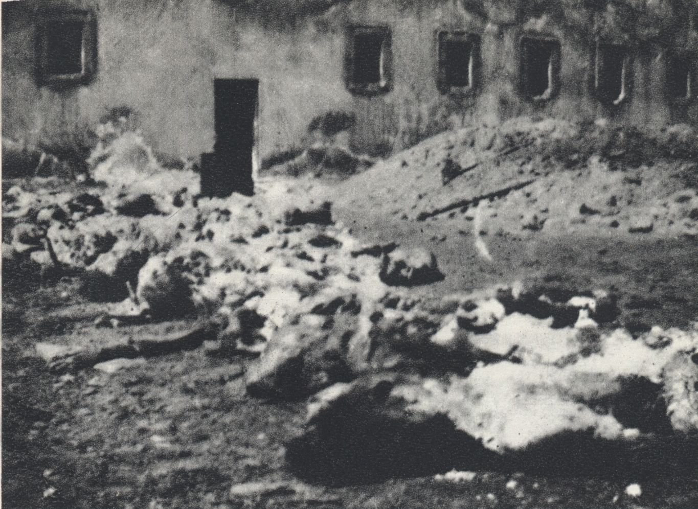 Remnants of the victims of Nazi terror at the courtyard of military prison at Gęsia Street in Warsaw (“Gęsiówka”). During the German occupation f Poland this prison was a part of the Nazi-German “Warsaw concentration camp” (Konzentrationslager Warschau).